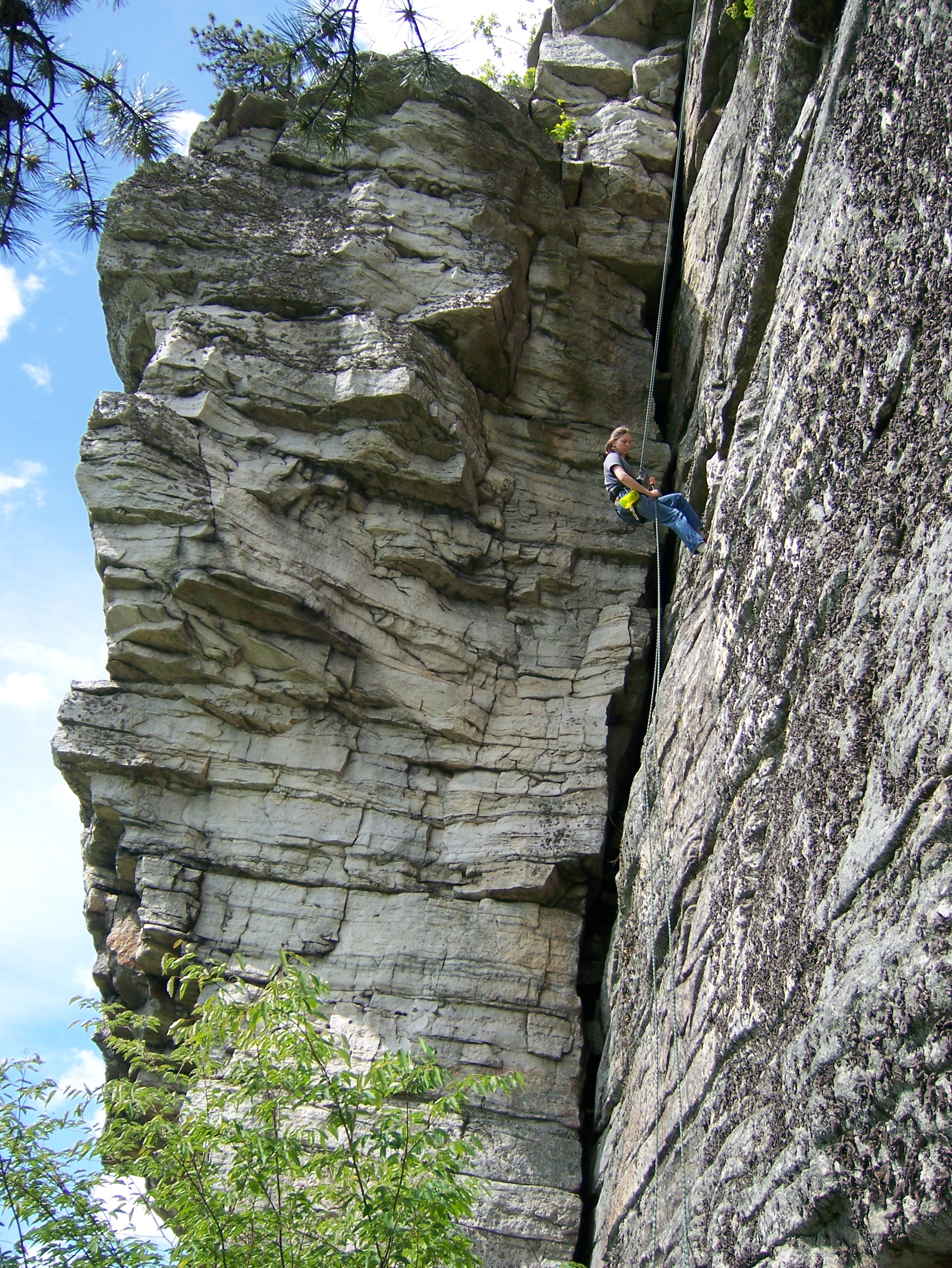 Climber rappelling at the Trapps cliff of Shawangunk Ridge located at Mohonk Preserve near New Paltz, New York.